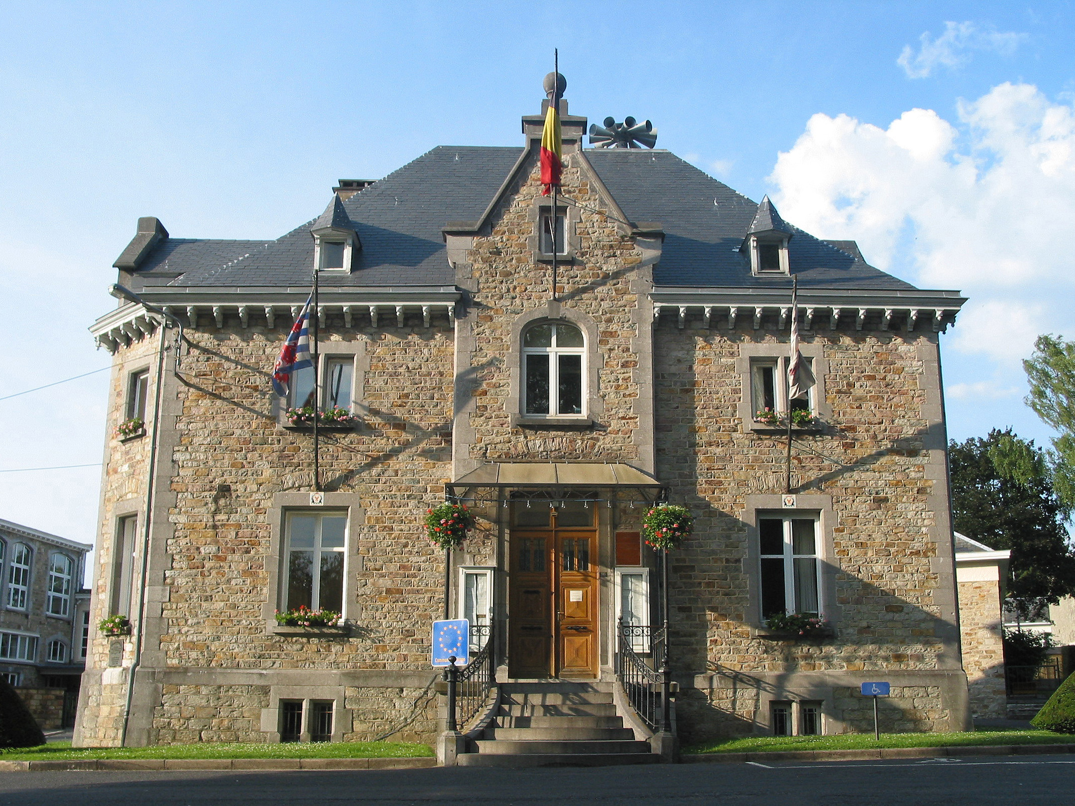 Vielsalm (Belgium), the town hall.